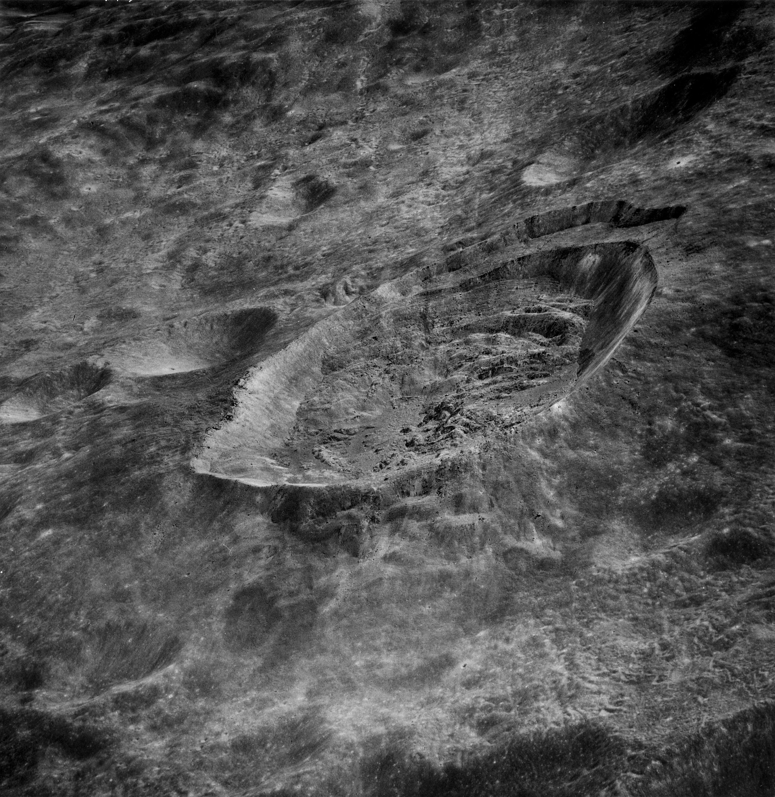 Oblique view of Necho, on the far side of the moon. Shot with 250 mm lens.